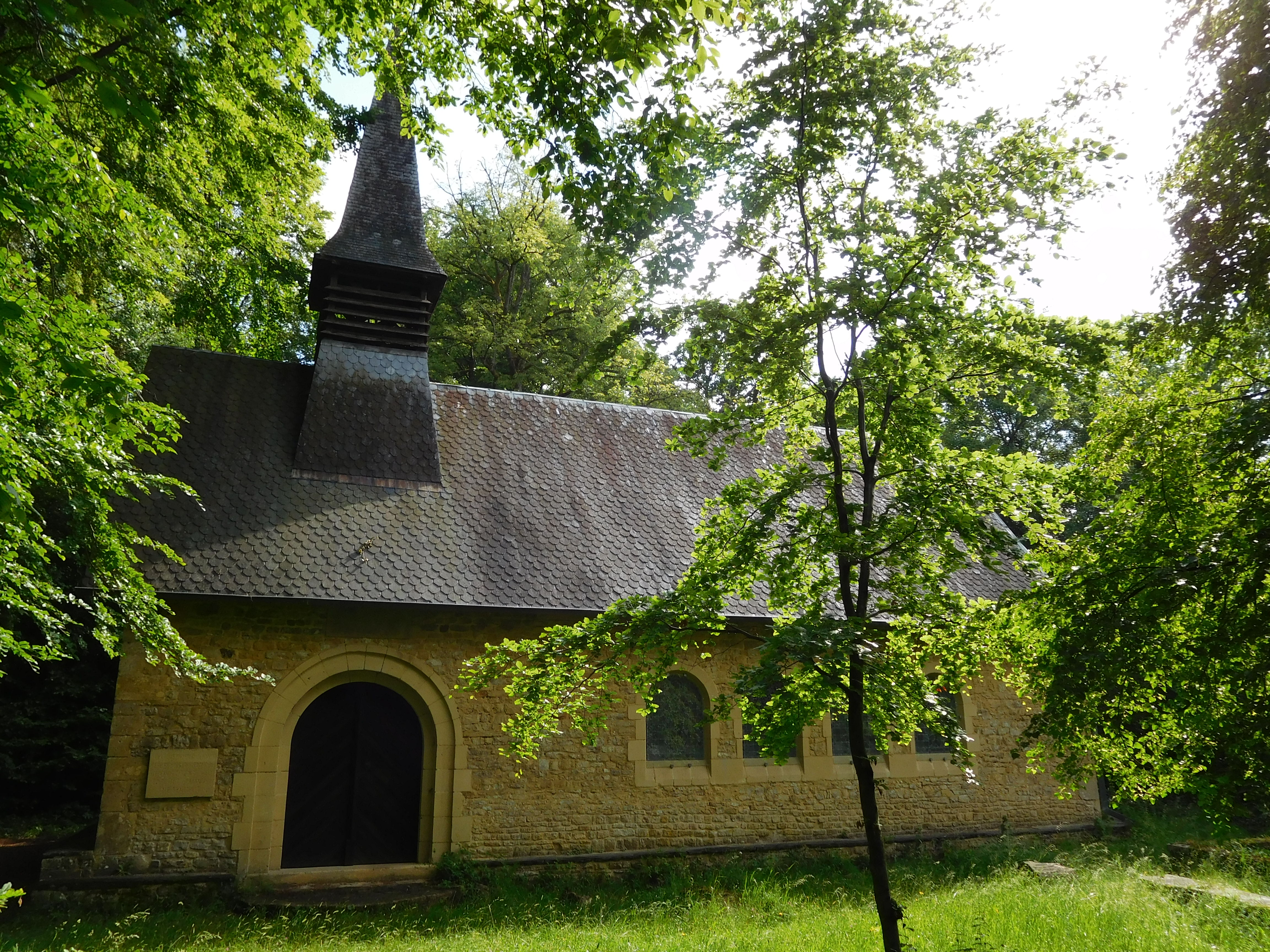 The 'chapelle Notre-Dame-des-Scouts' is found in the forest near the Orval Abbey